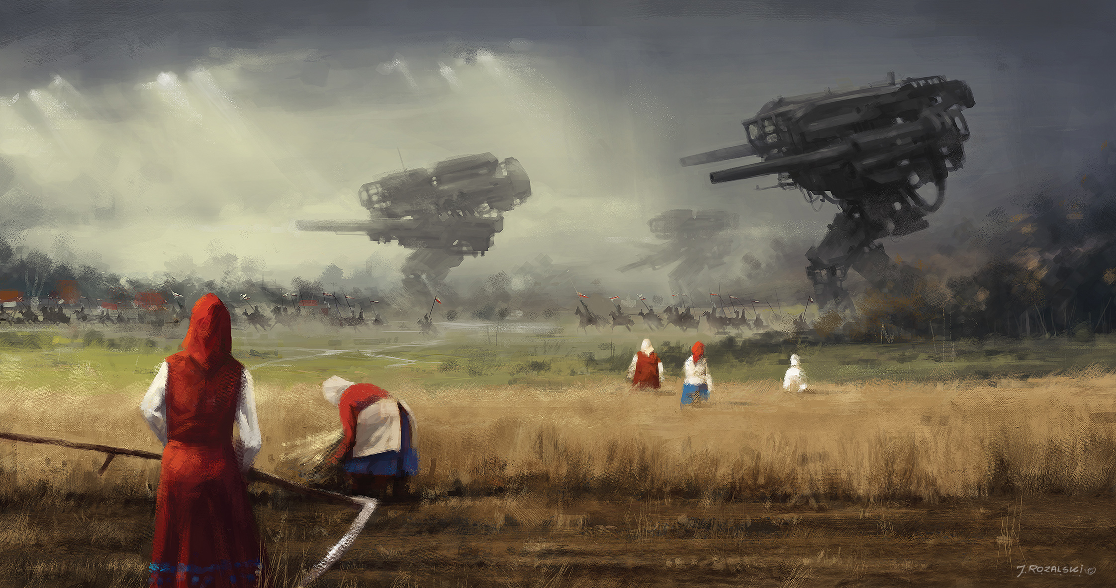 Before the storm is one on the most characteristic painting in the style and aesthetic of my 1920+ world.